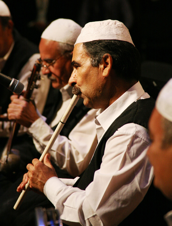 Traditional flute player from Iraqi folk dance troupe plays at a performance at a 10-day camp for aspiring Iraqi performers and artists at the National Unity Performing and Visual Arts Academy.